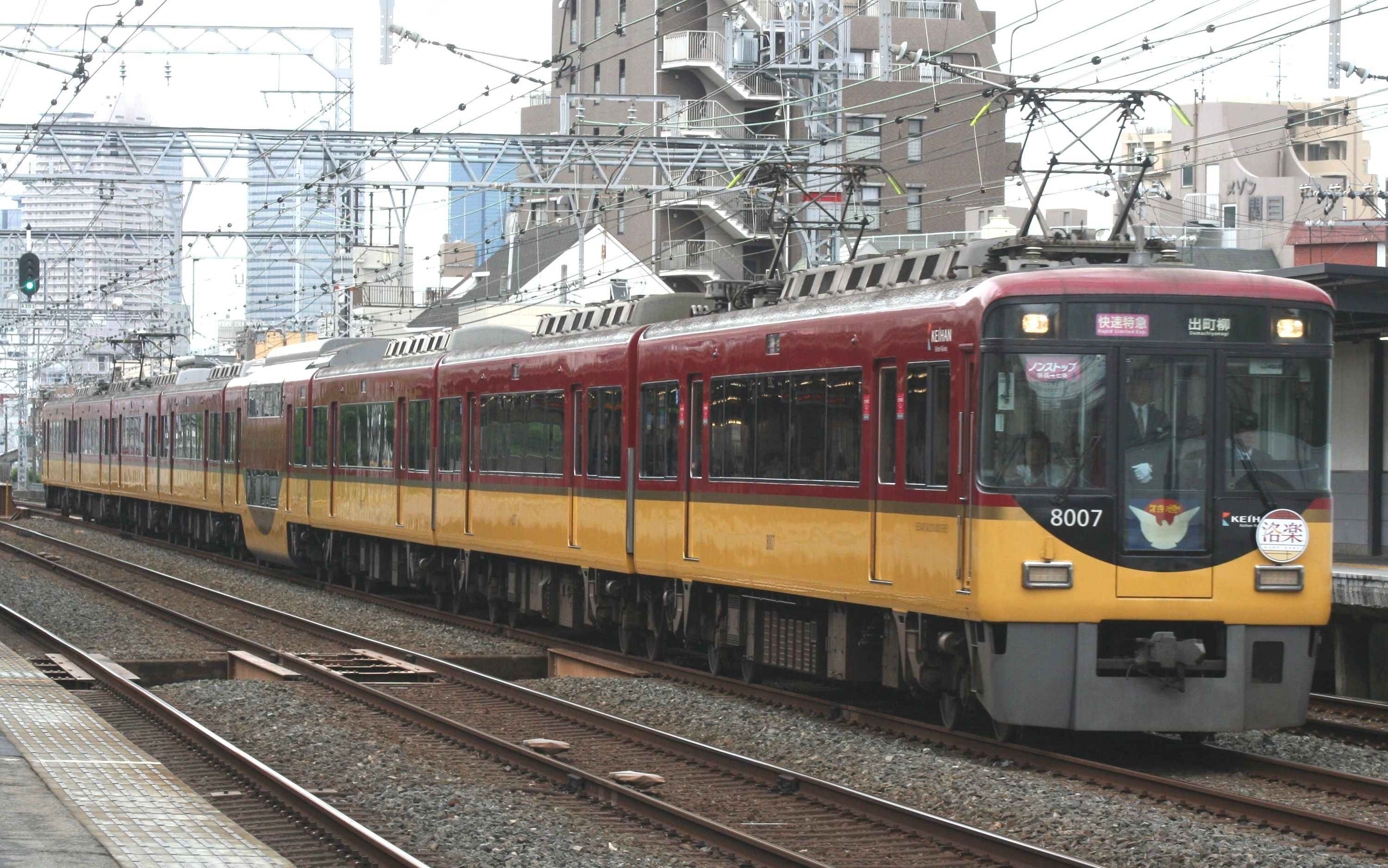 Keihan Electric railway series 8000